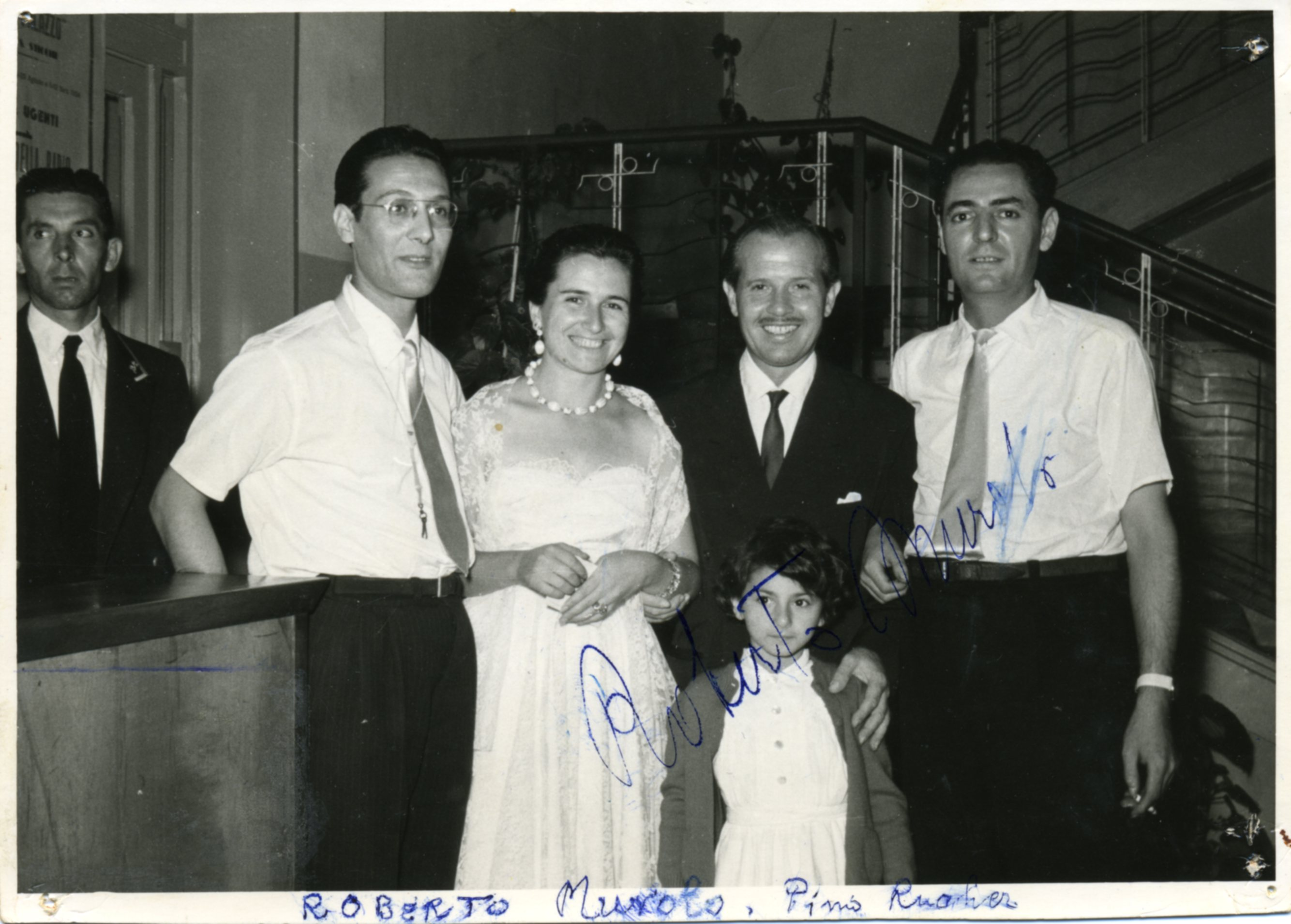 Roberto Murolo and Pino Rucher (first from right)